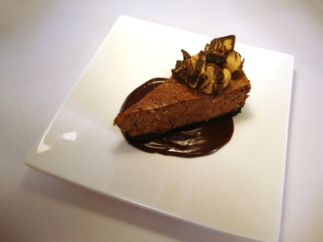 A photograph taken from my Panasonic Lumix FH5.